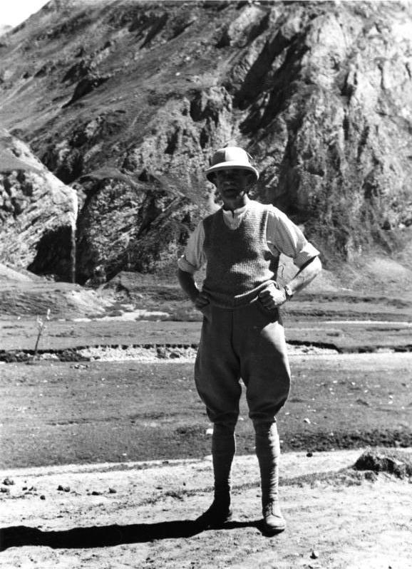 Oberes Tschumbital [Chumbital], Mr. Gould